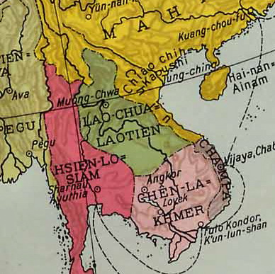 The Ming Empire without its "vassal states" under the Yongle Emperor (For more information see: Denis Twitchett & Frederick W. Mote: The Cambridge History of China Vol. 7 - The Ming Dynasty 1368–1644 Part 1. Cambridge University Press, 1988.)